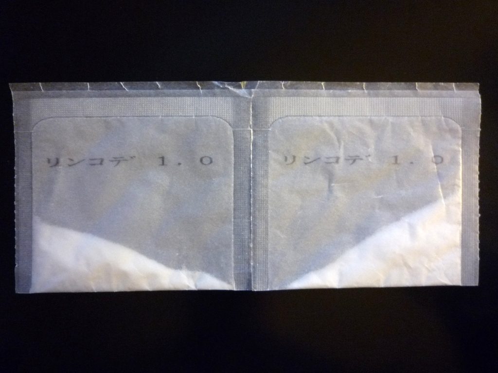 Codeine phosphate as Rincode 1% powder selling in Japan